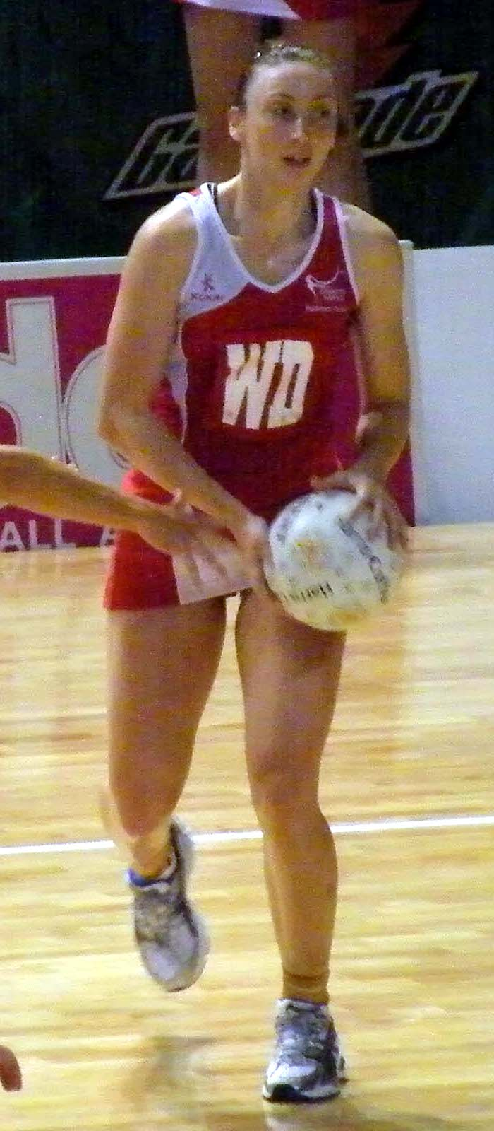 Crop of Jade Clarke from Australia v England - Netball Test - Adelaide, October 2008. Levels adjusted.